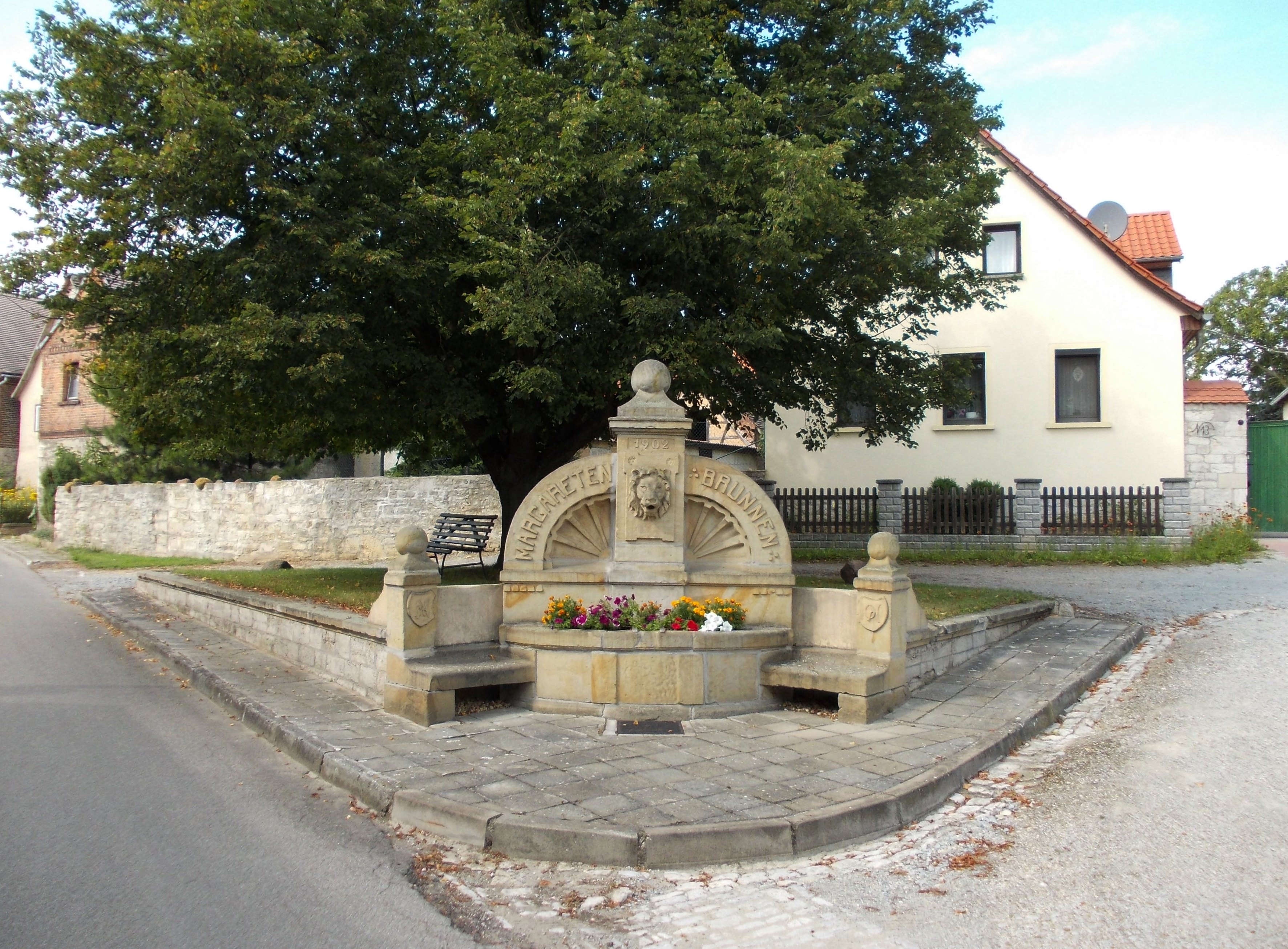 Margarete Fountain in Tultewitz (Naumburg, district of Burgenlandkreis, Saxony-Anhalt)